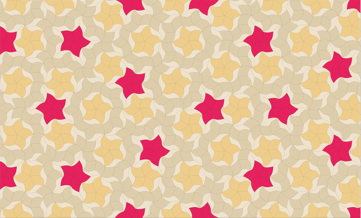 And example of a P3 Penrose tiling using tiles that enforce the tiling rules by modifying the edges. In this case, the edges are parabolic segments instead of line segments.